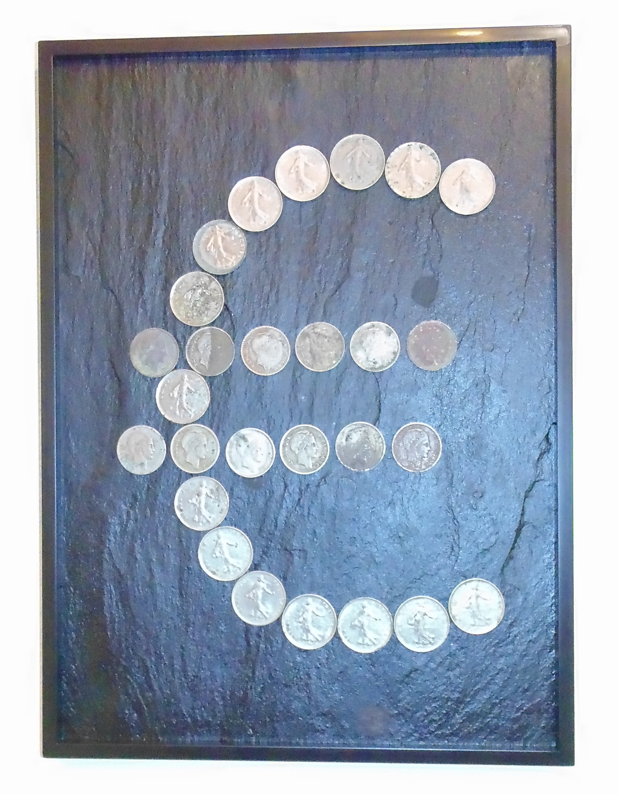 Euro symbol - Minimalism art with counterfeit money